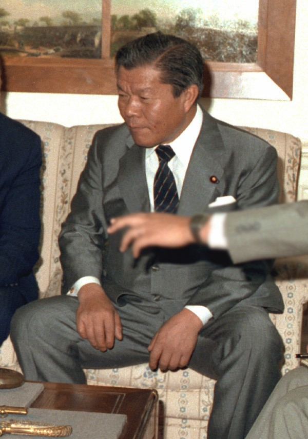 Minister of State for Science and Technology of Japan, Ichiro Nakagawa.